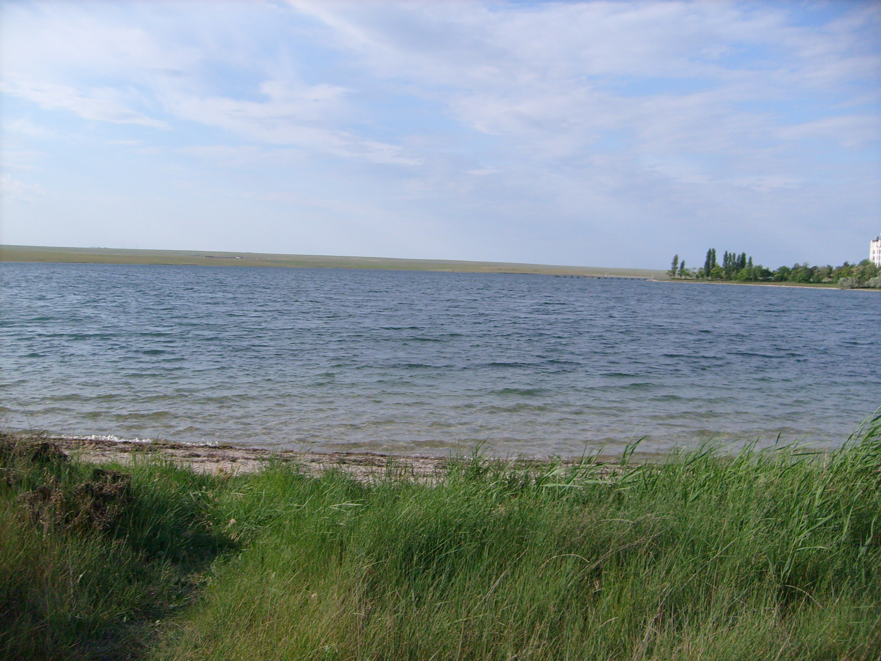 Novoozerno